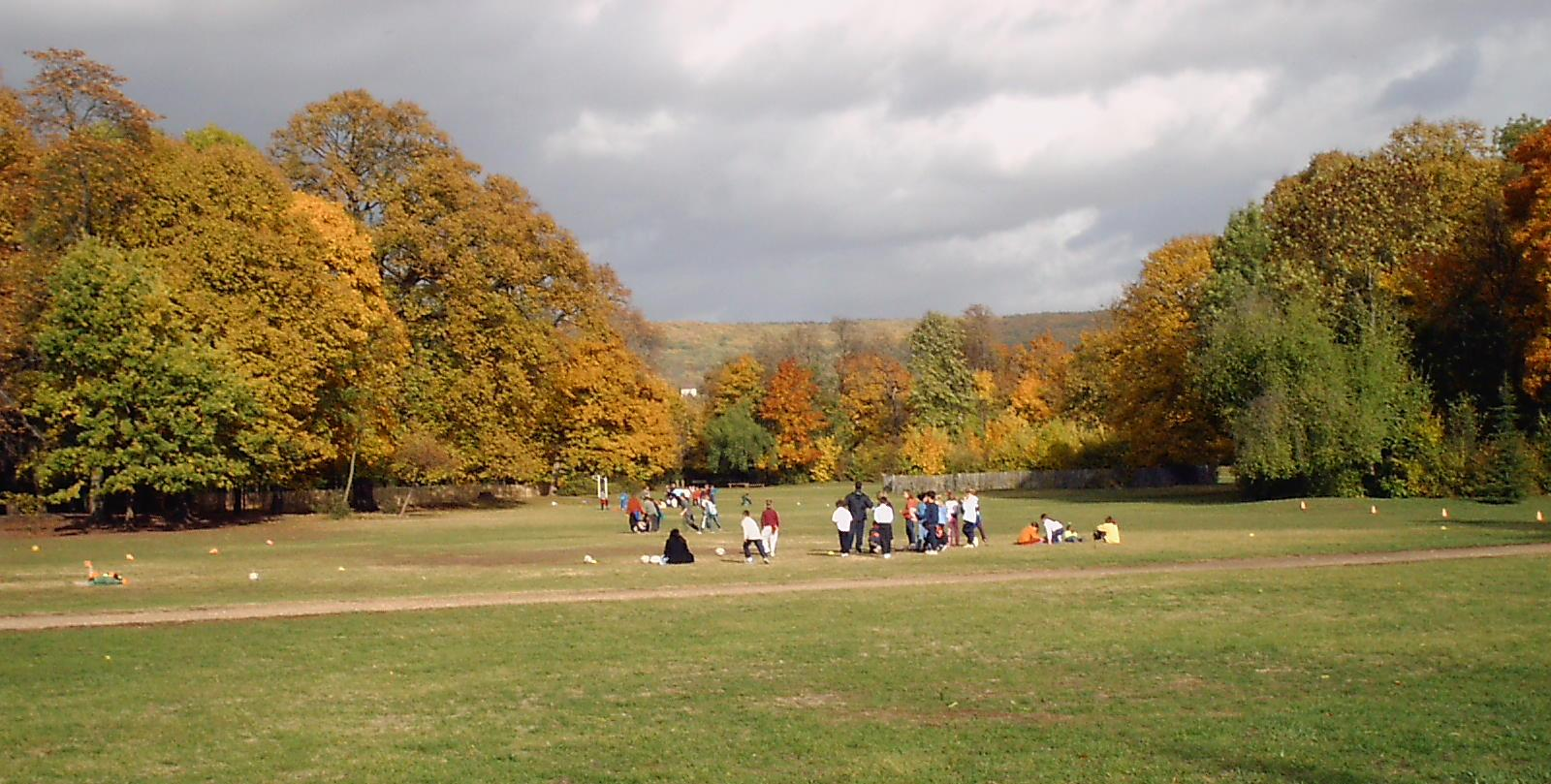 Gardens of NDIHS